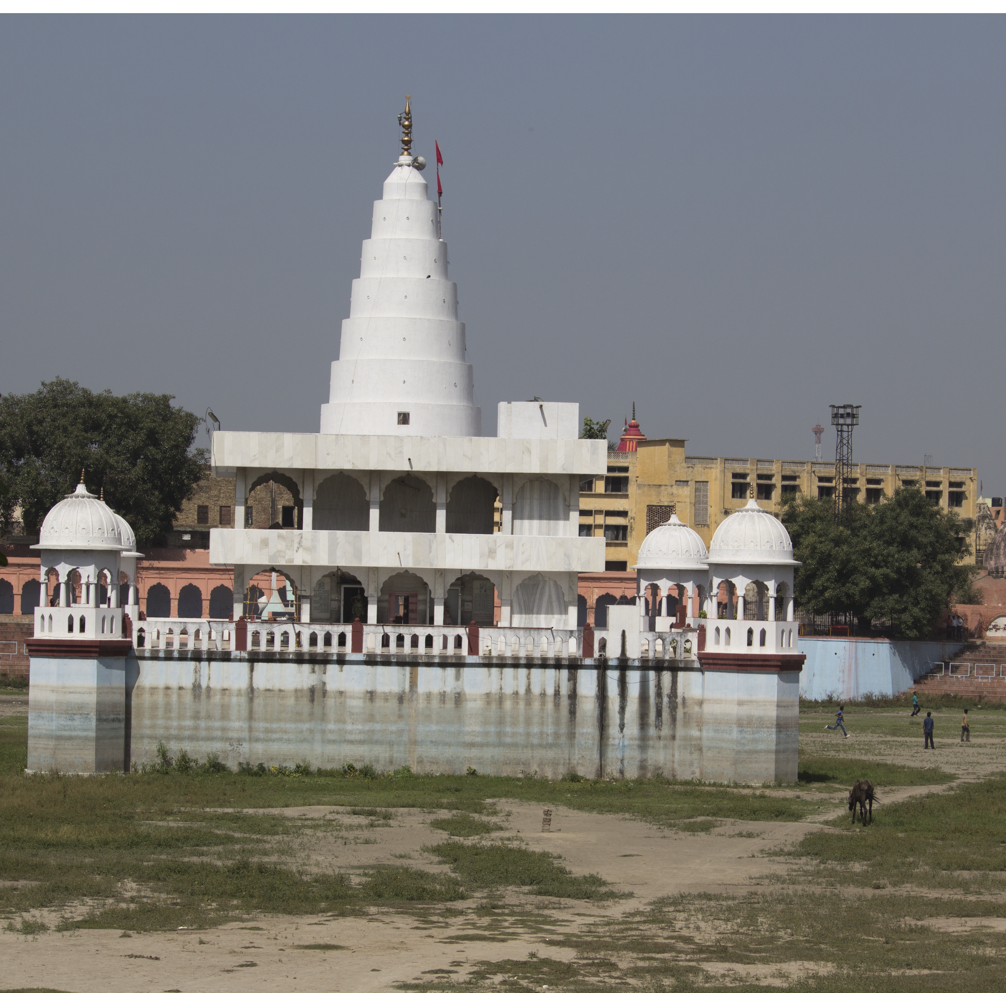 Rani Talab is situated in Central City of District Jind , Haryana, India . It was build by the once ruling King of there for her queen (as 'Rani' means Queen & 'Talab' means Pond) to take bath and pray in the Temple constructed in the middle of Pond as seen in the picture.